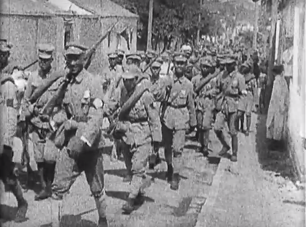 National Revolutionary Army troops marching (early 1930s)